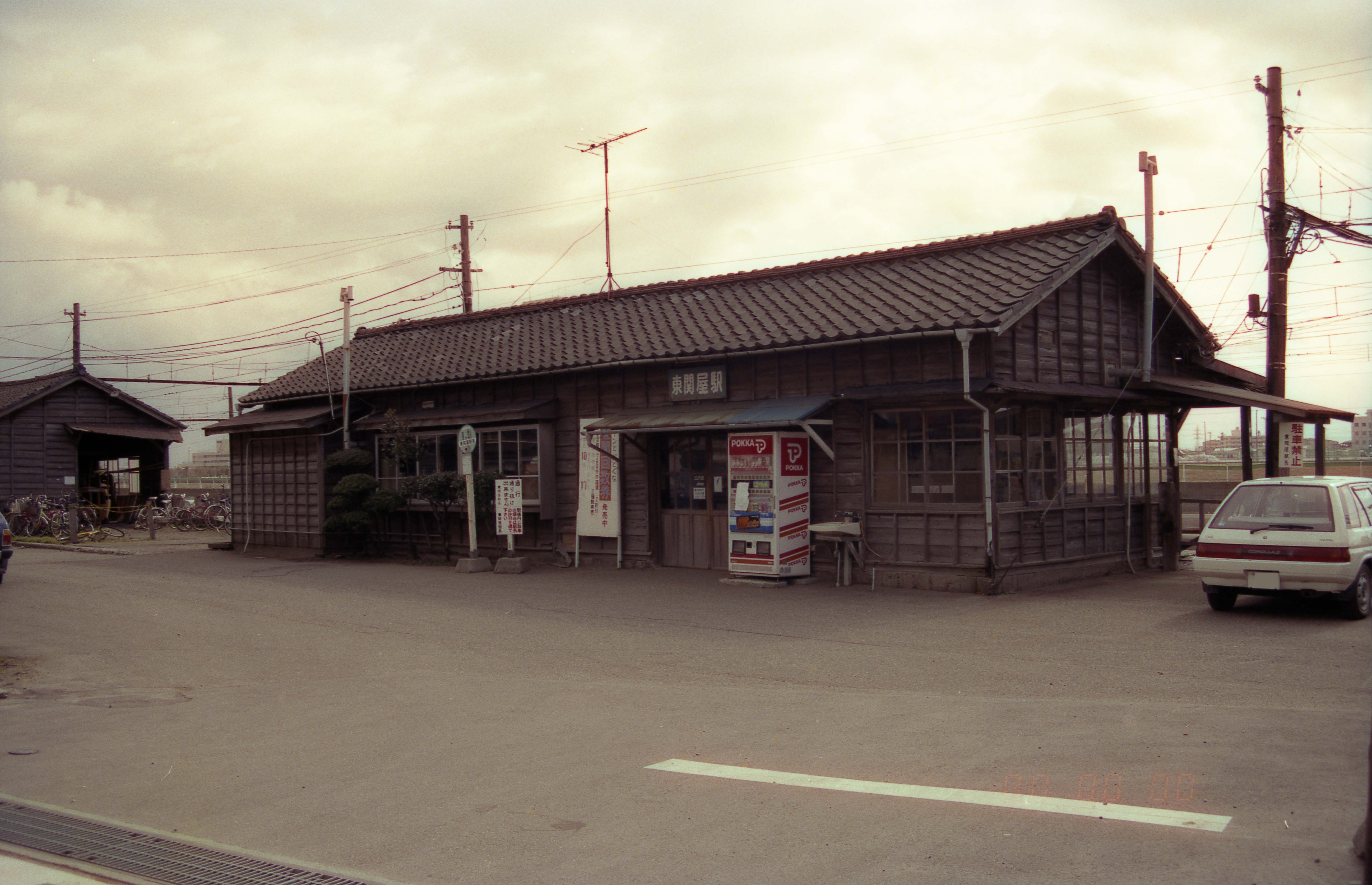 The building of Higashi-sekiya Station,Niigata Kotsu Railway(before abolished)